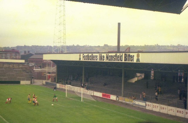 The Visitor's End at Millmoor, Rotherham